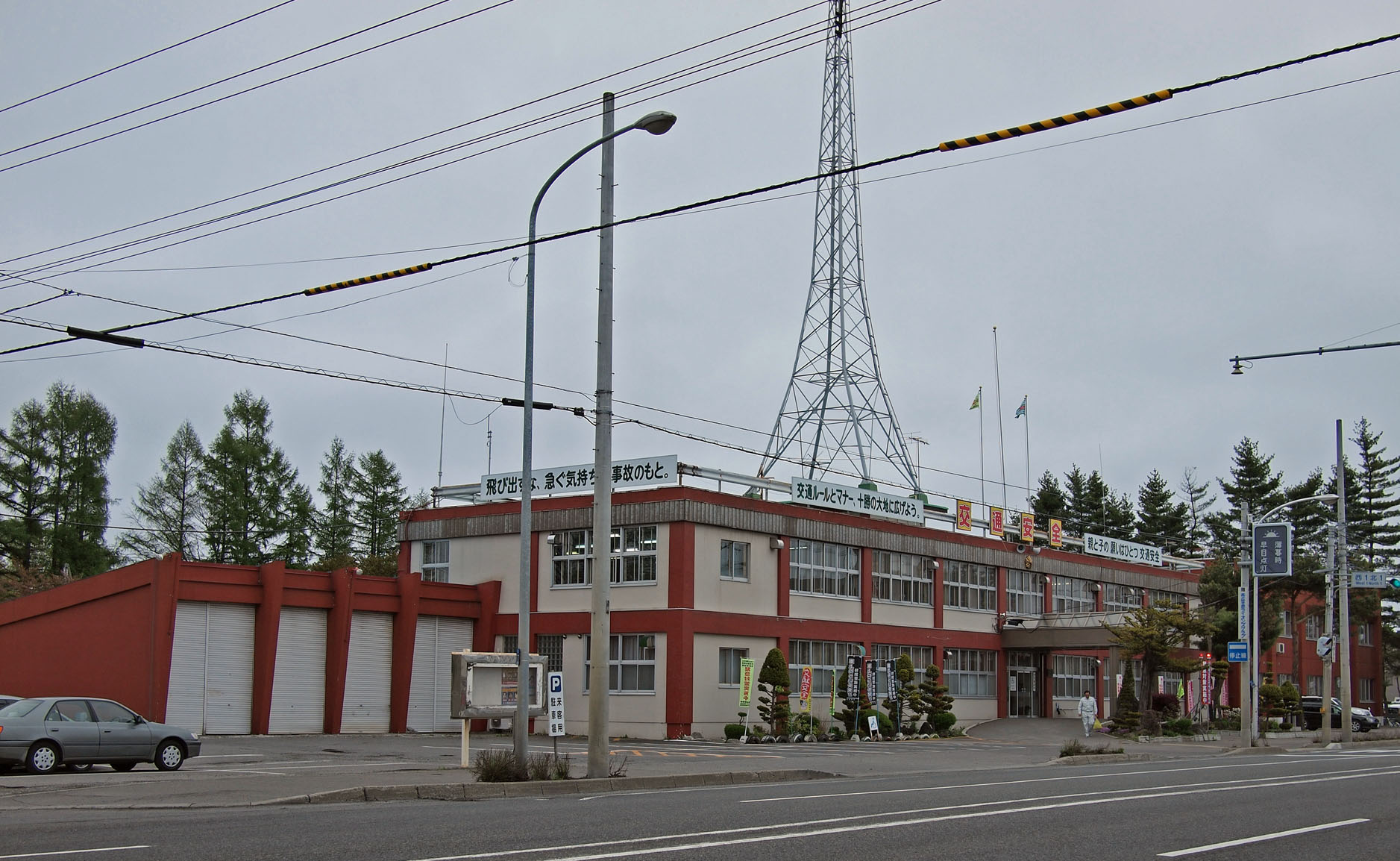 Obihiro police station, Obihiro, Hokkaido, Japan